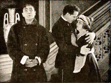 Still from the American comedy film Brass Buttons (1919) with Frank Brownlee, William Russell, and Eileen Percy, on page 12 of the June 1919 Film Fun. A man borrows a policeman's uniform in order to impress a woman.